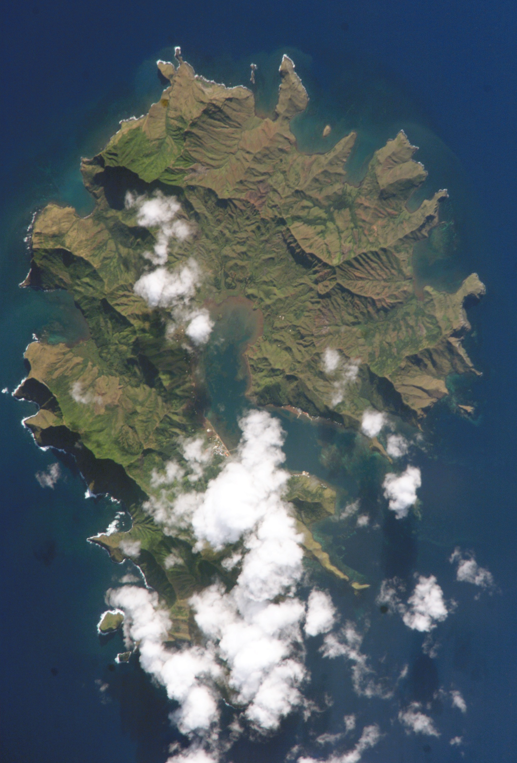 NASA Astronaut Image of Rapa Iti (Austral Islands, French Polynesia) in the Pacific Ocean